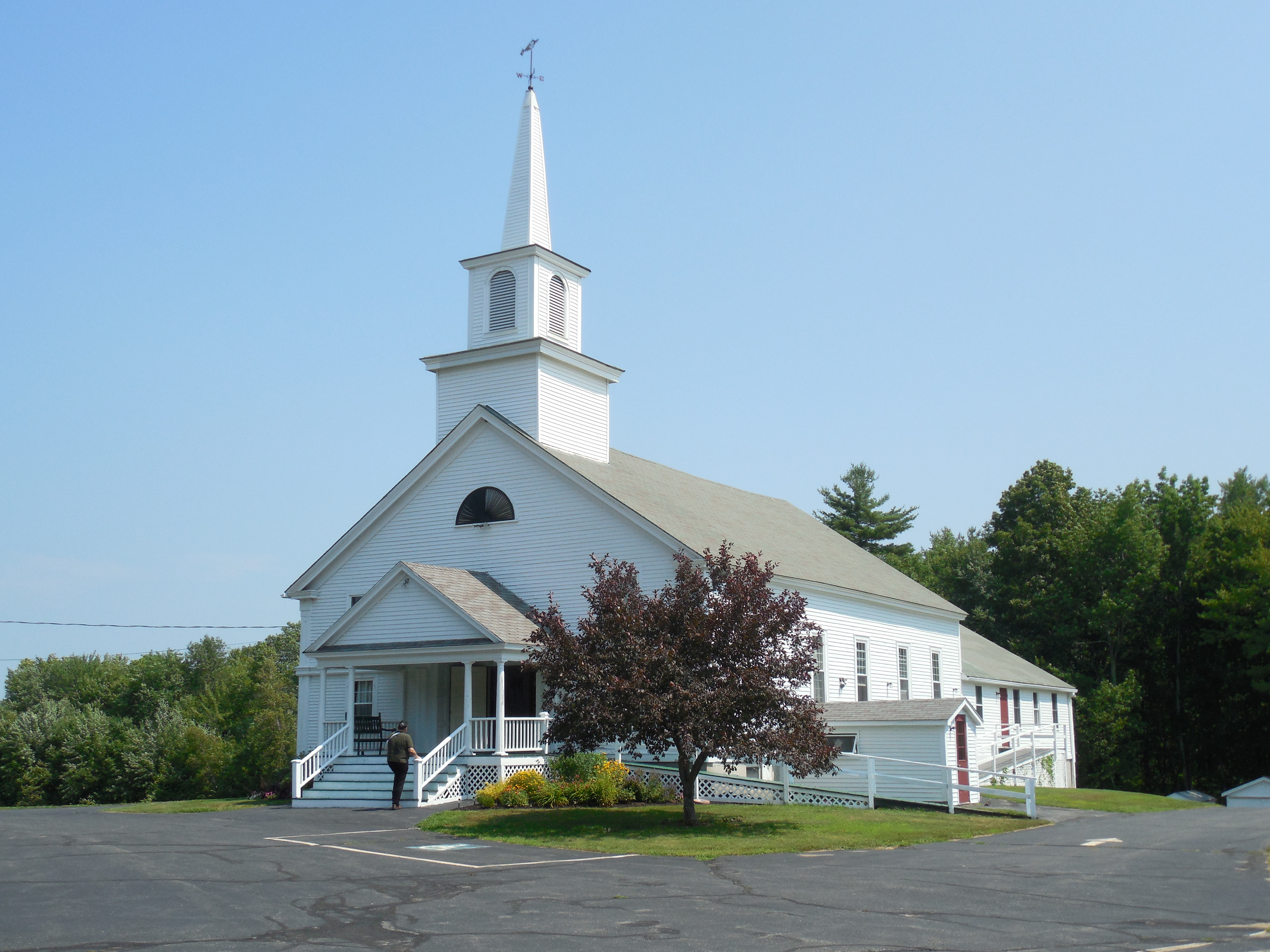 Danville Baptist Church, Danville New Hampshire